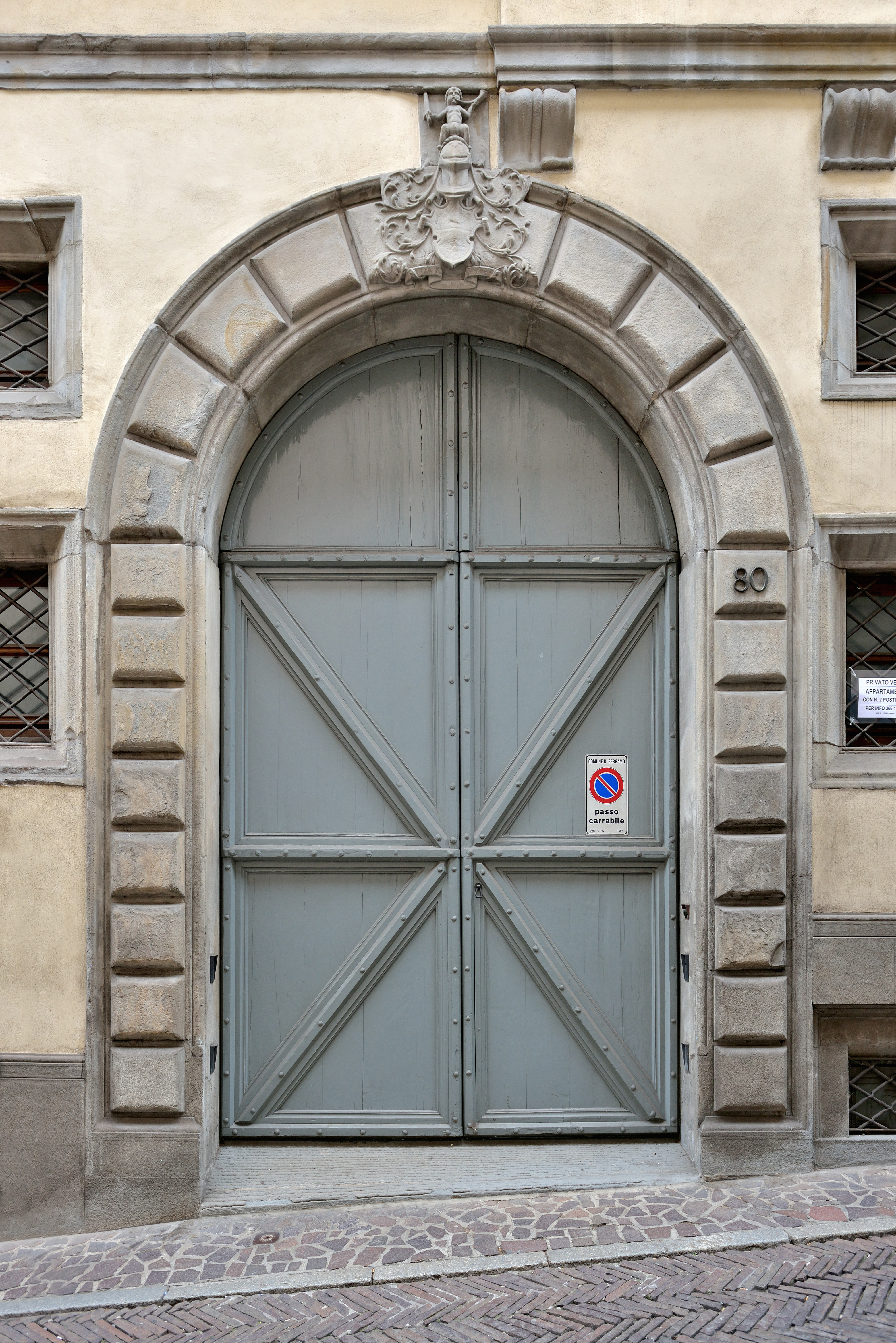 Portal in Via_Pignolo 80, home of Torquato Tasso in Bergamo